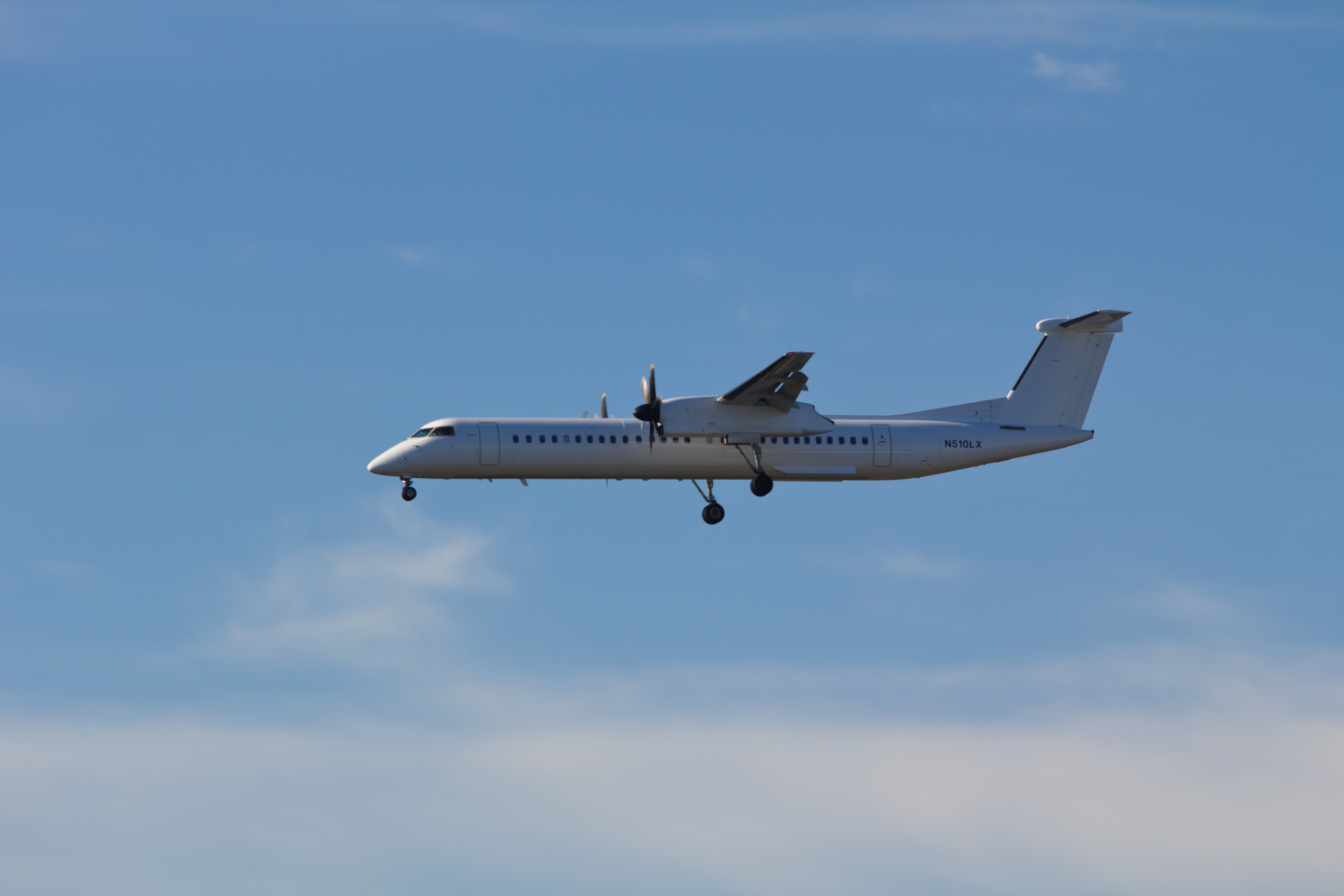 Unmarked! I think this is QXE flight 442 Reno/Tahoe Intl (KRNO) to Seattle-Tacoma Intl (KSEA)